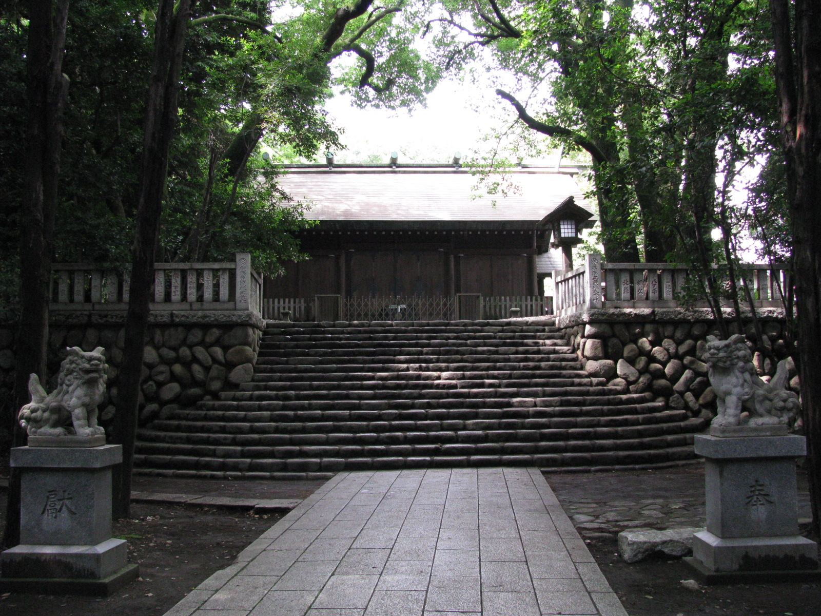 Susaki Okami (Susaki Shrine) is located in Kanagawa-ku, Yokohama, Japan.